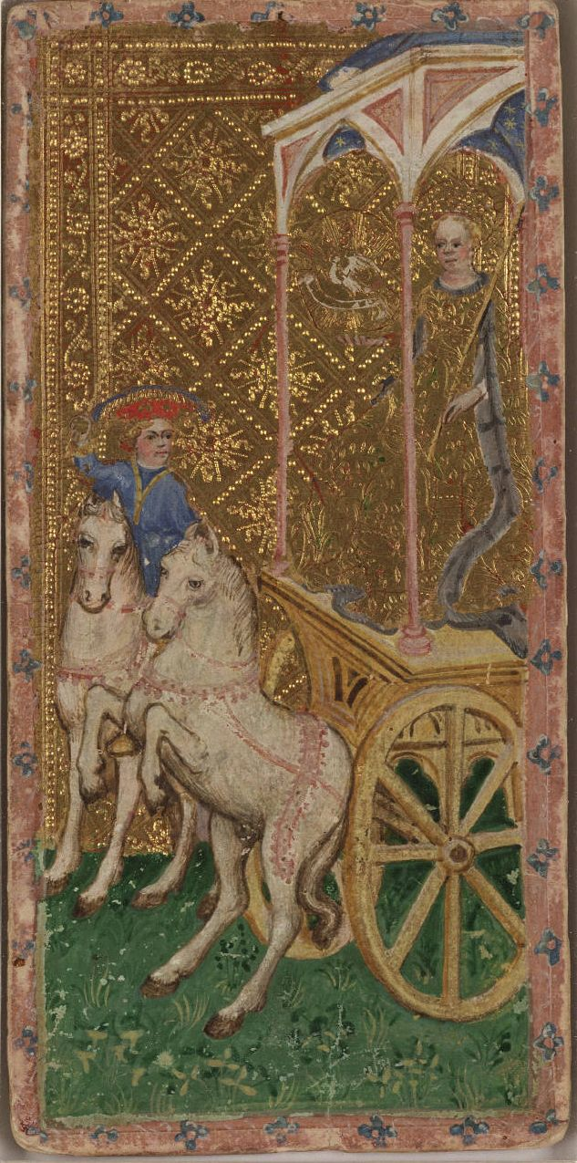 Medieval festival parade. Hand-painted, gold and silver Milanese tarot card, ca. 1428-1447. Currently at the Yale University Library.